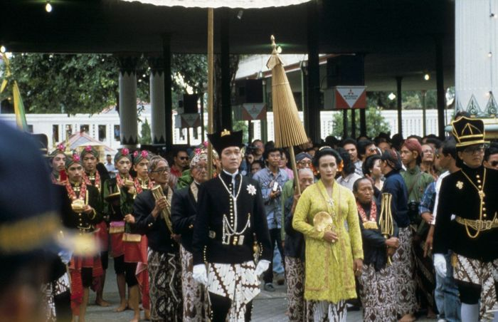 Coronation of Sultan Hamengku Buwana X in the kraton